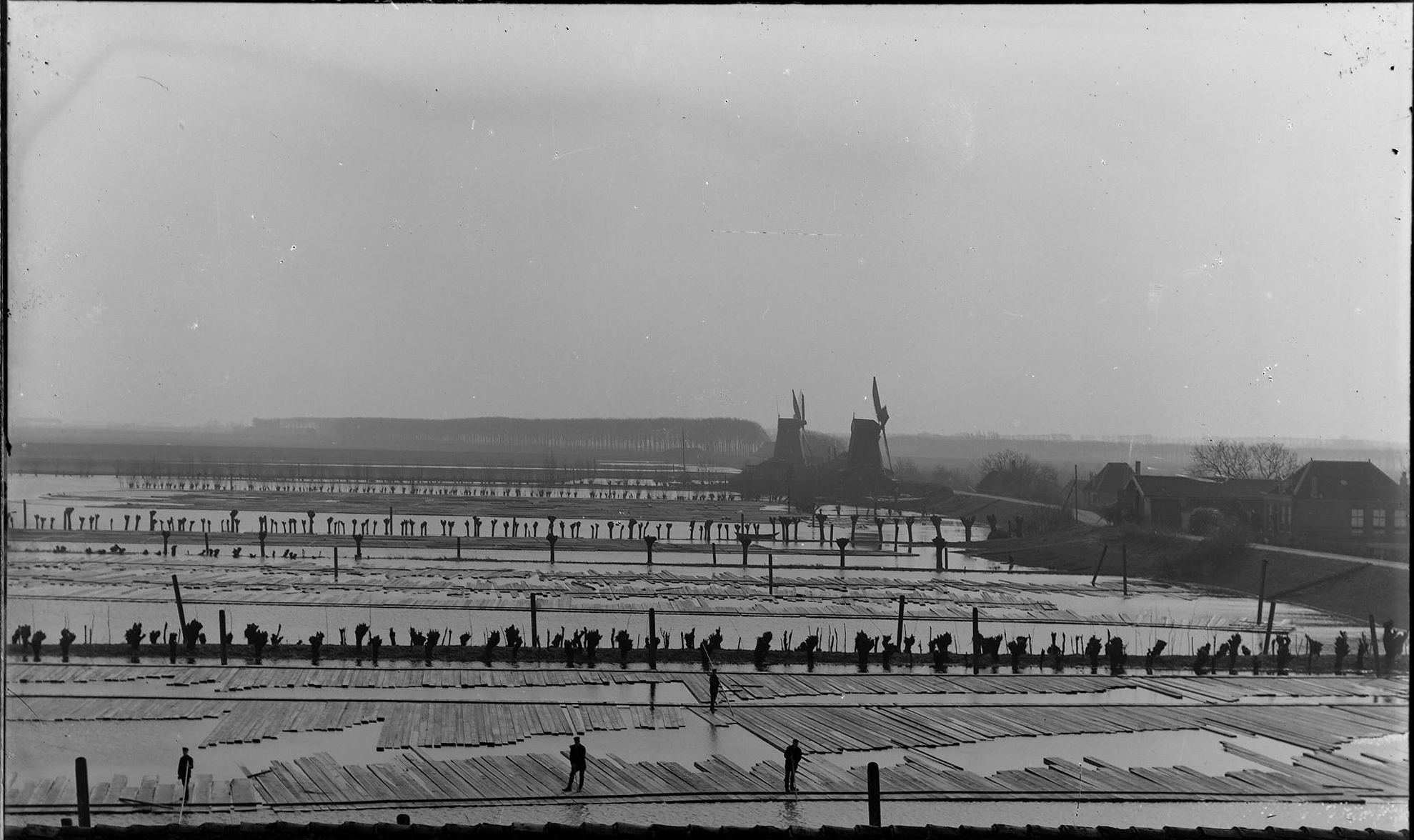 A view from the Nagtegaal Mill on the Oranjelaan/Noordendijk crossing, the sawmills of Duinen and the Windhond; by Henricus Jacobus Tollens; framed by myself from file:Gezicht vanaf molen de Nagtegaal Tollens.jpg